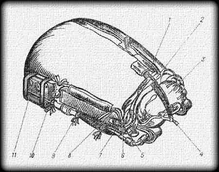 D-6 parachute.